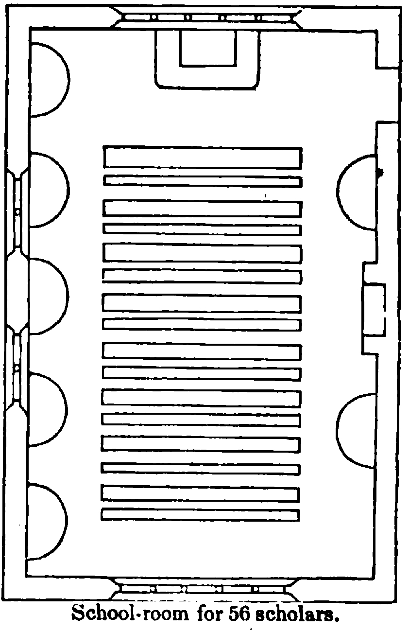 Architecture of Monitorial school of the Lancaster type for 56 children